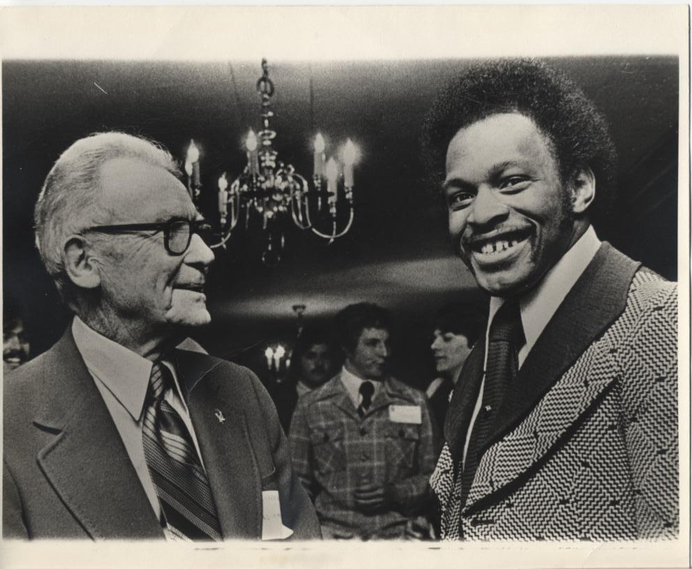 OSU All-Americans